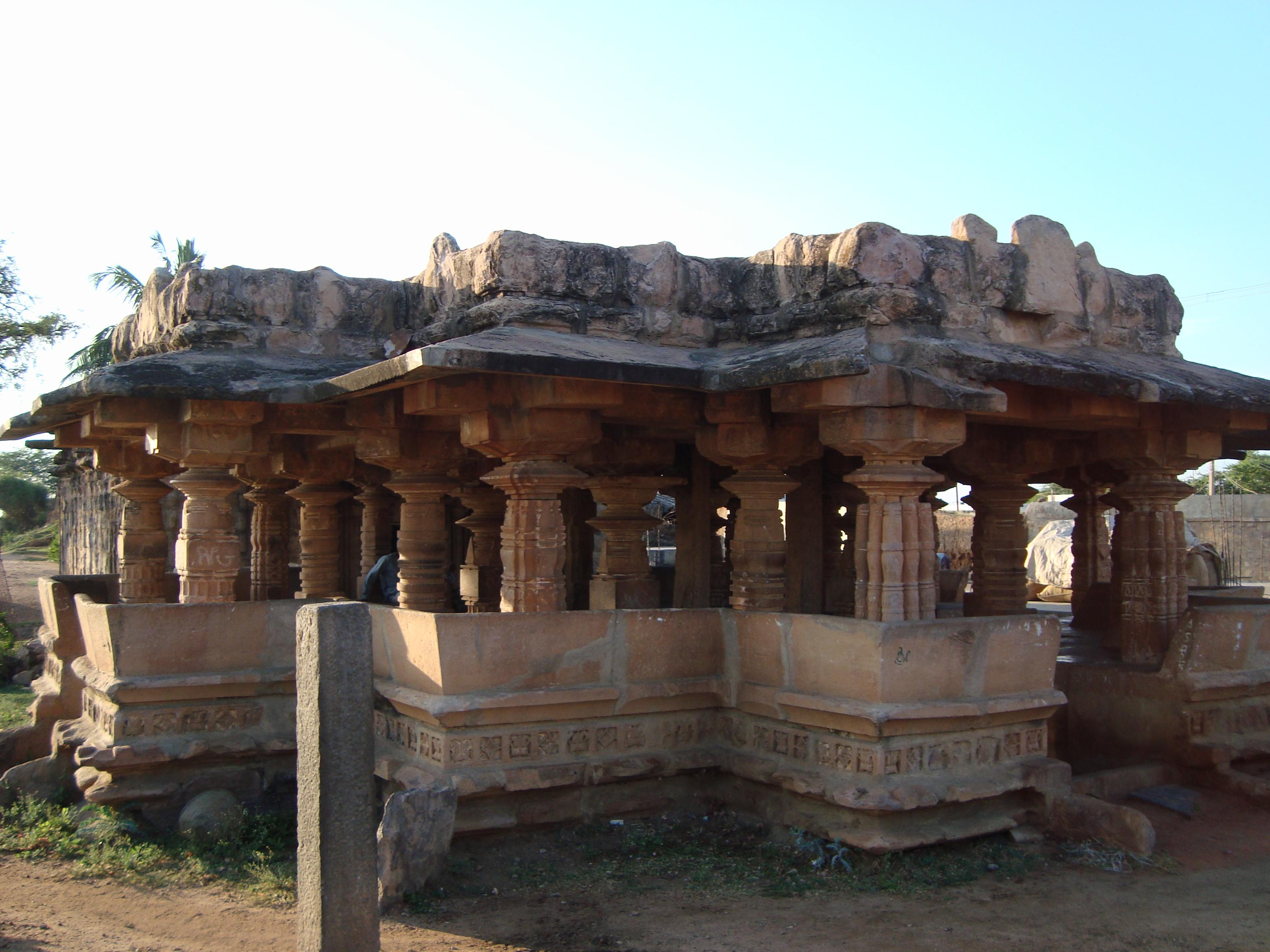 Itagi historical shiva temple Hubli, Karnataka(North), India